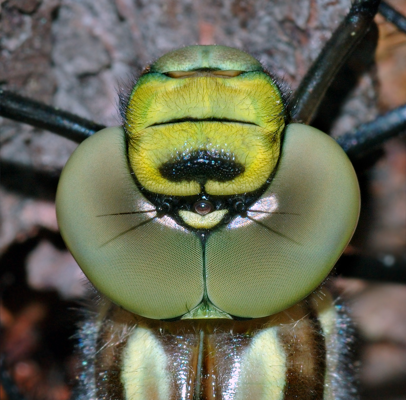 This image shows a head close-up of a male dragonfly of the species Aeshna cyanea.